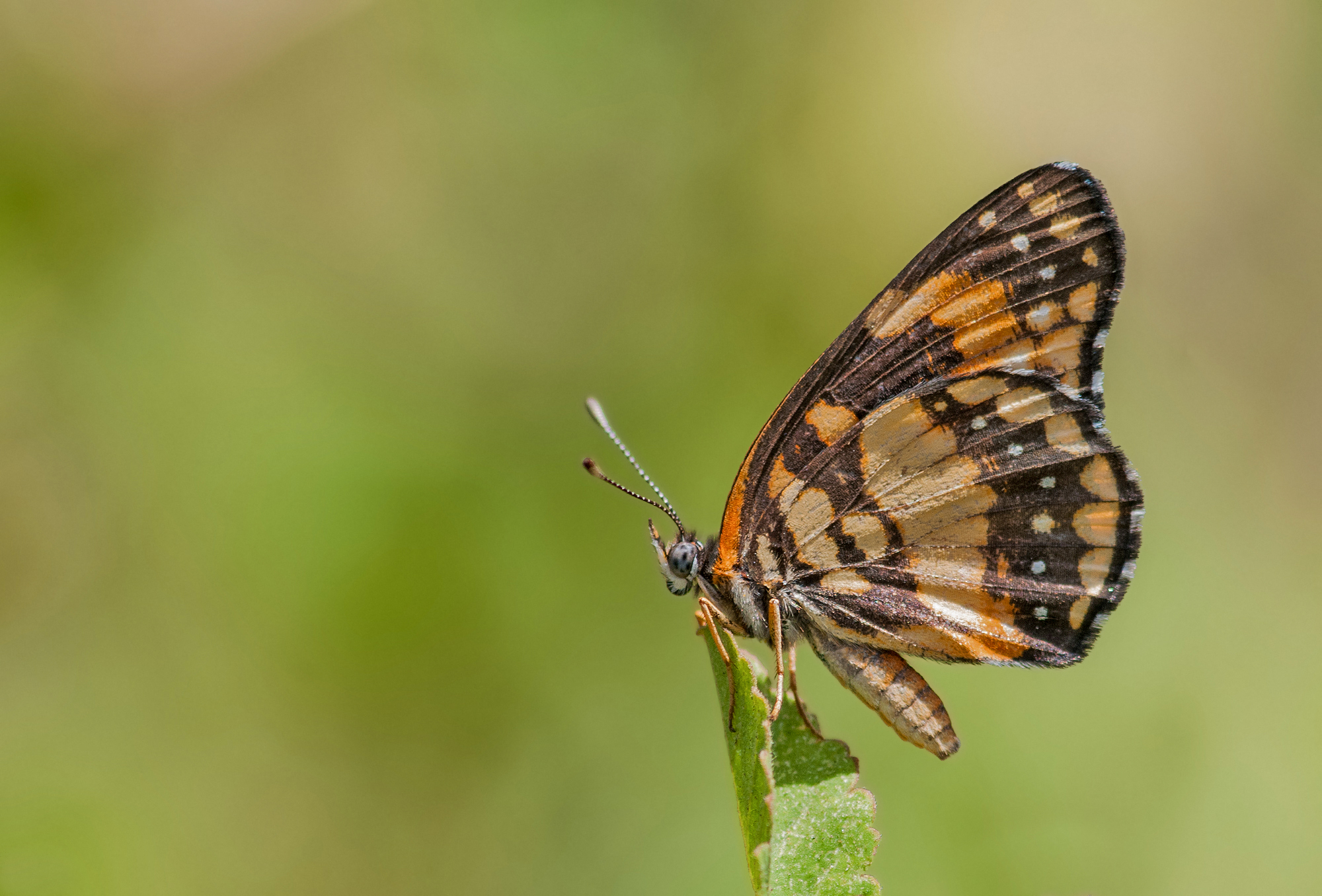 Chlosyne lacinia (Bordered Patch) from Margarita island. Its wingspan ranges from 1¼ to 1⅞ inches